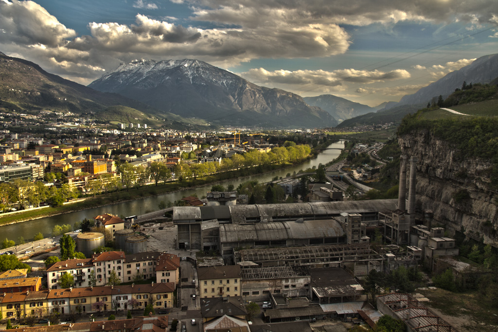 View of Trento from above with the Italcementi factory